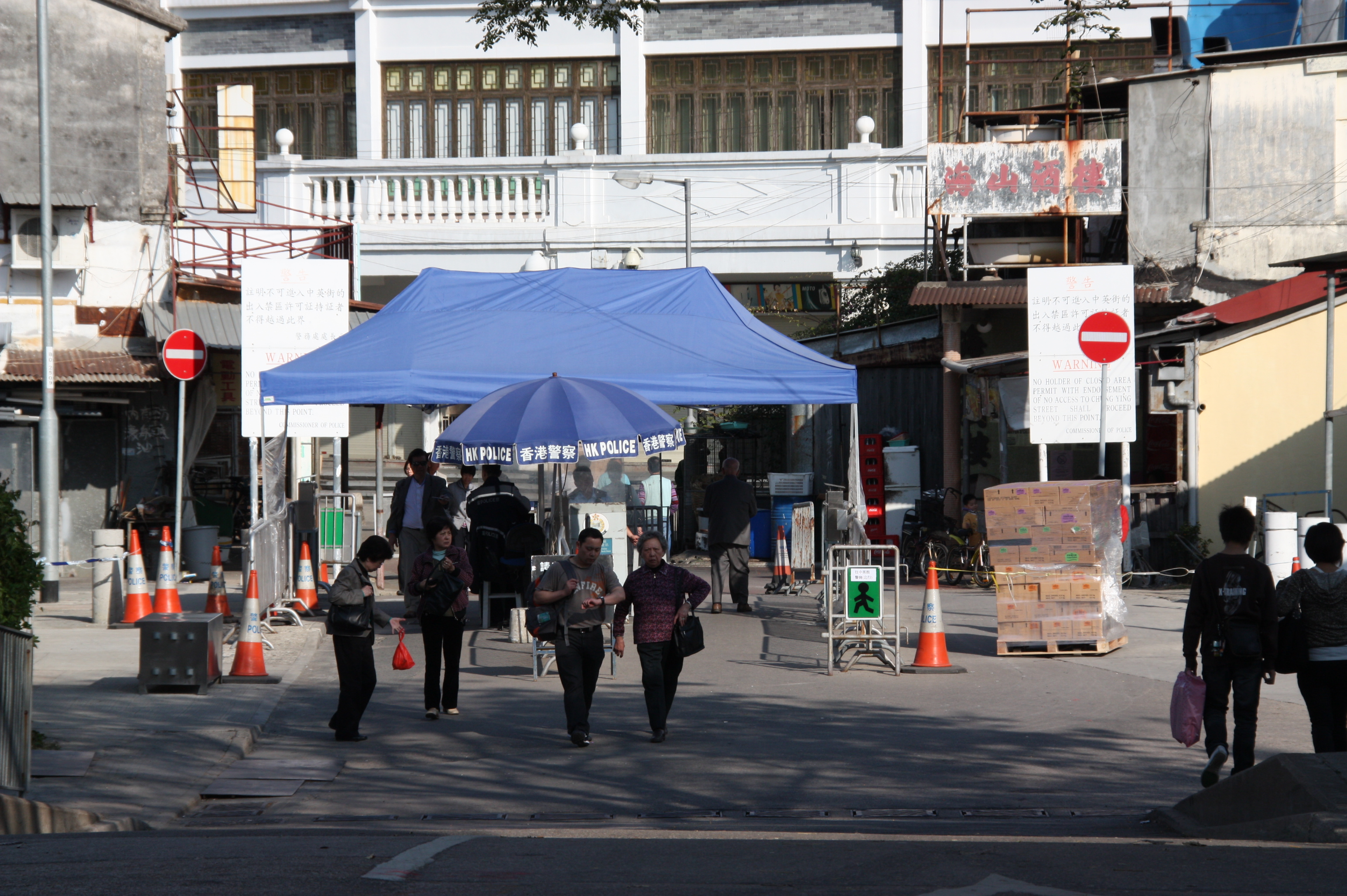 Chung Ying Street Check Point